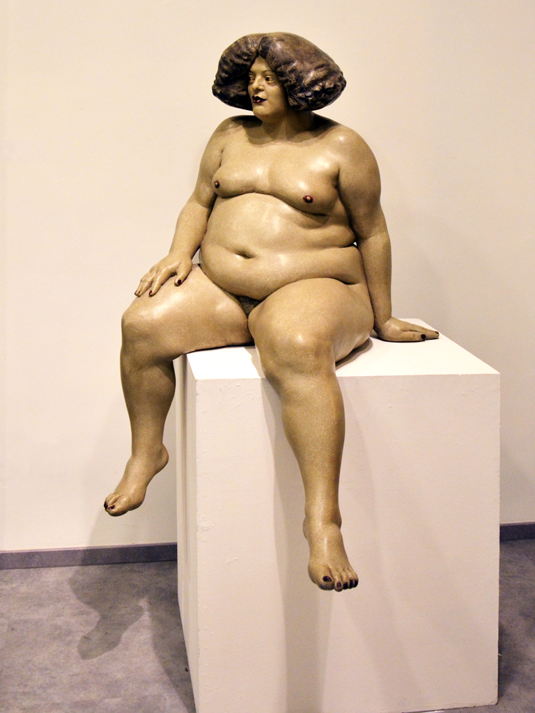 Sculpture by Ludmila Seefried-Matějková, Hanna, synthetic resin, polychromy (1973)